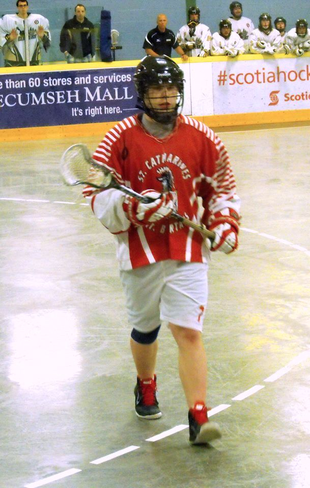 These images of Ontario Junior B Lacrosse Action action during the 2014 season are taken by Devan Mighton.